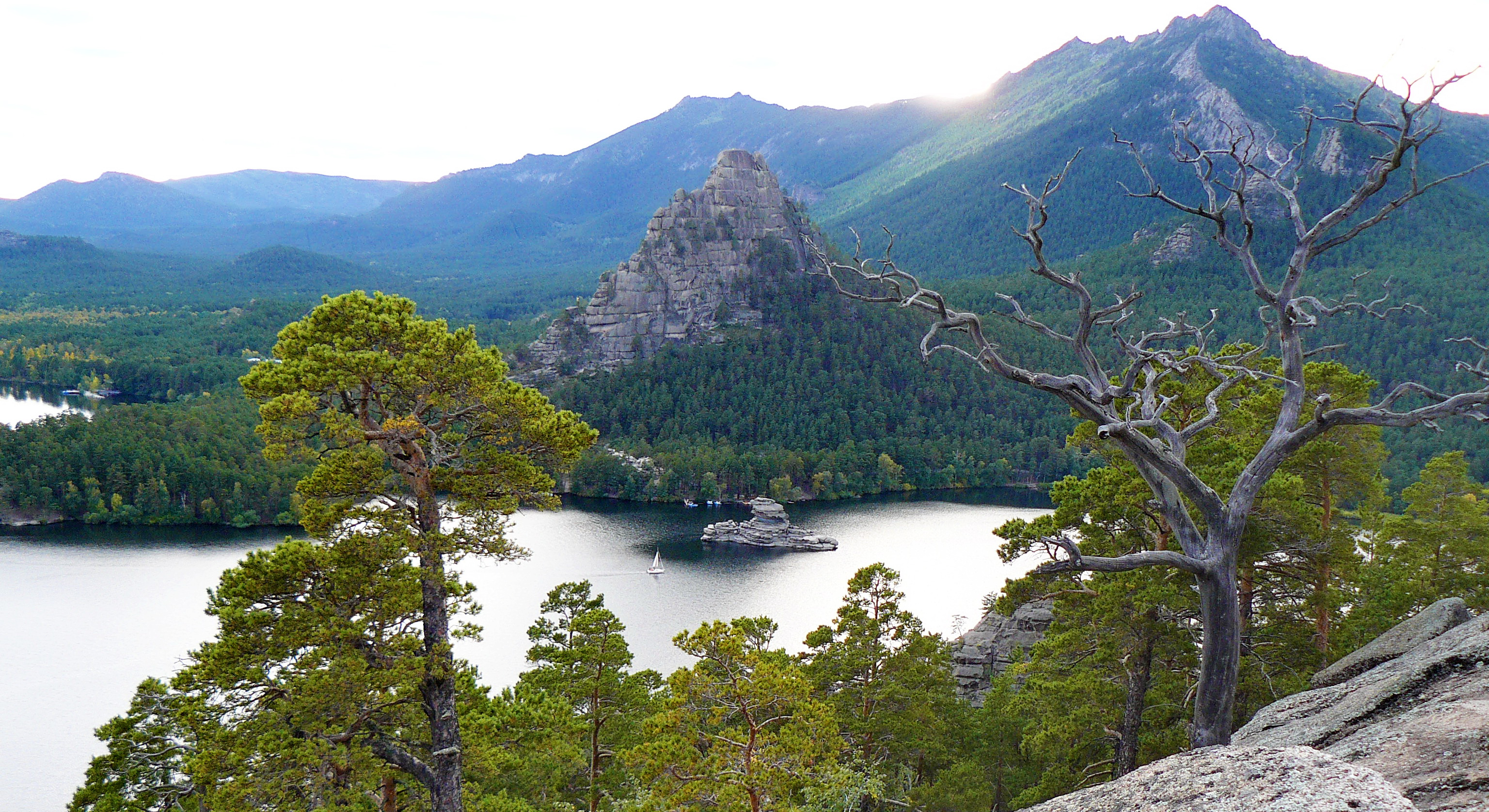 Panorama of the Blue Bay in the autumn evening